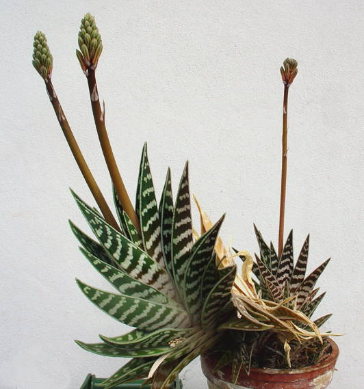 Species Gonialoe variegata Genus Aloe Family Asphodelaceae Location Czech republic Time April 2006 Picture taken by: User:Karelj